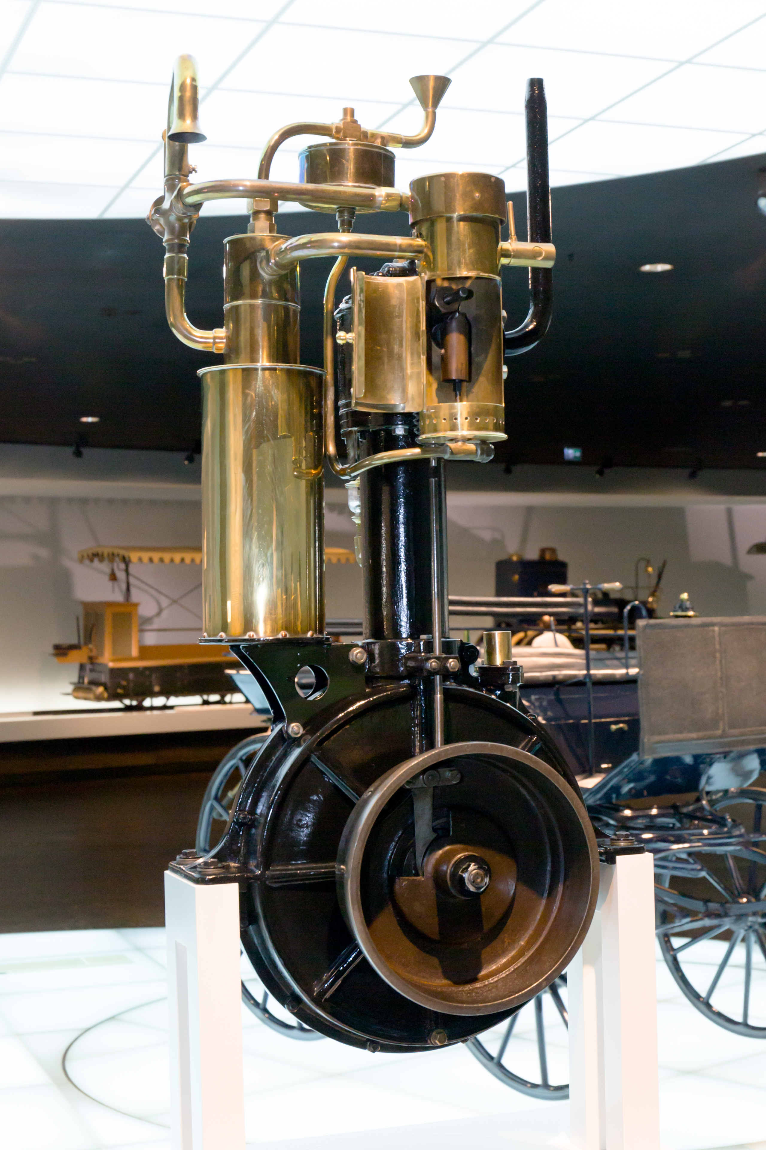 1886 Daimler Standuhr engine 1 cylindre